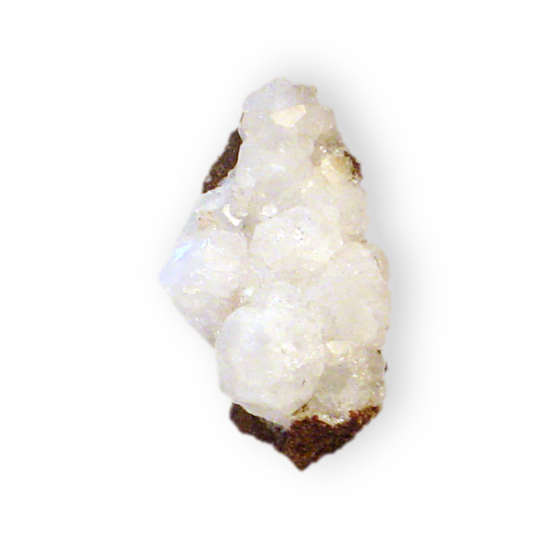 These mineral images are free to use how you wish.